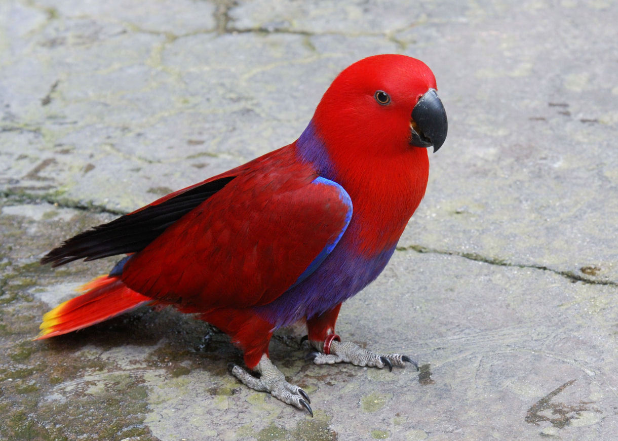 Eclectus Parrot (female) at Miami Metrozoo, USA.